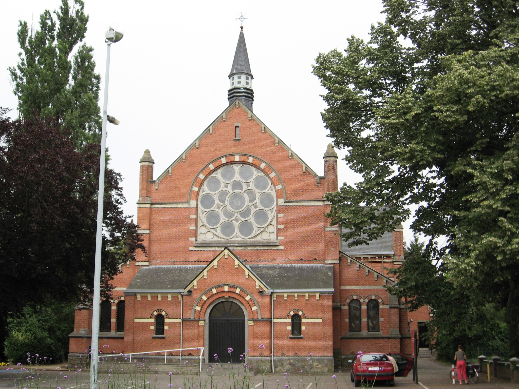 Church of the Immaculate Conception in Paal (Tervant), Beringen, Limburg, Belgium